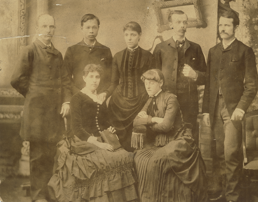 From source: "Members of the class of 1884, Old University of Chicago. Second row, left to right: Laurence Johnson, Saum Song Bo, unidentified woman, Fred R. Swartwout, and Darius Leland; first row: Lydia A. Dexter, unidentified woman. [Photograph] gift of Dr. E. V. L. Brown, January 16, 1934."